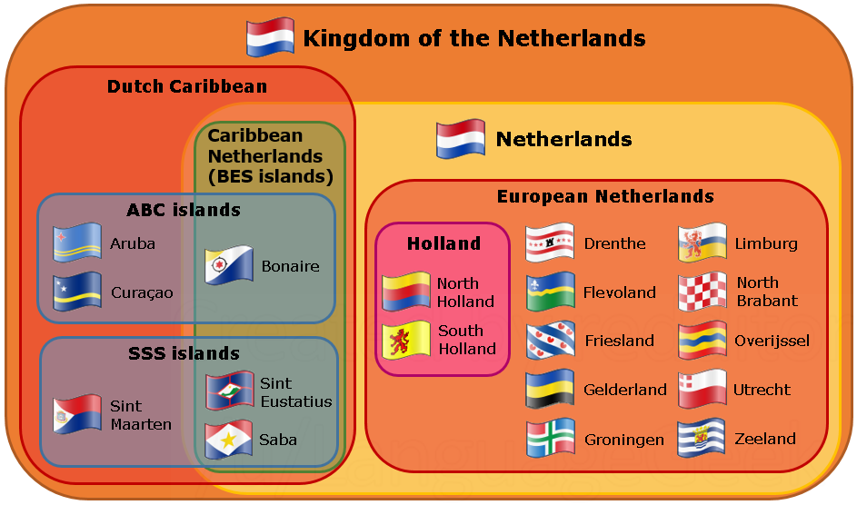 Euler Diagram of the Kingdom of the Netherlands